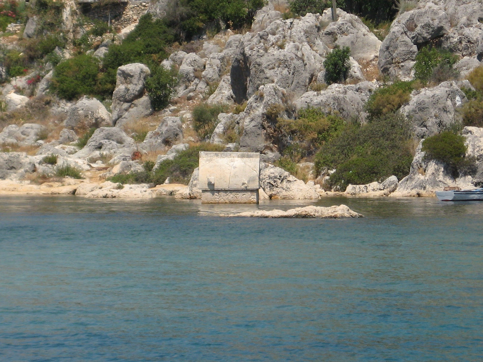 Sarcophage Lycien